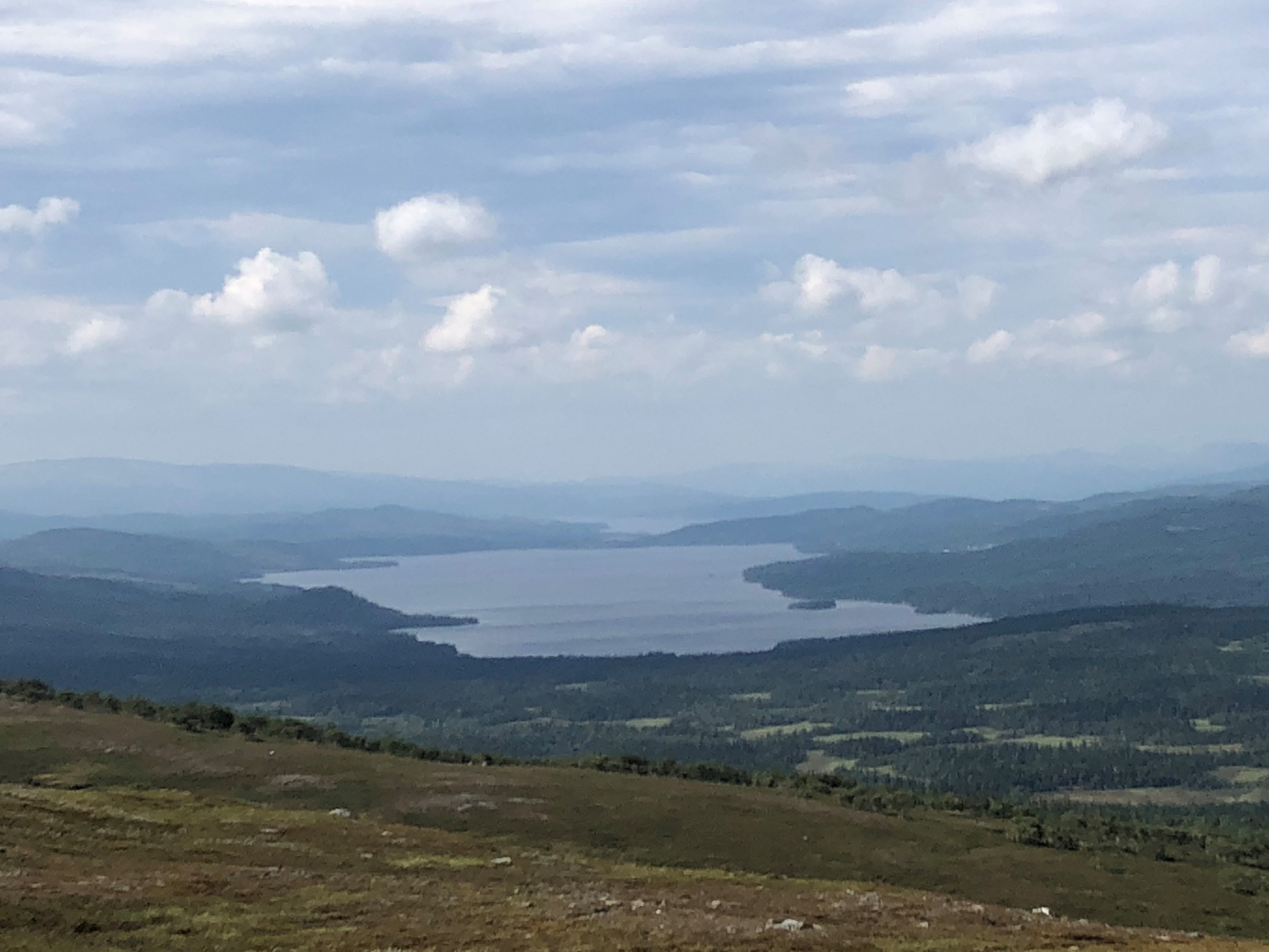 Lake Sandsjøen in Lierne, Trøndelag, Norway seen from eastsoutheast at 790 masl in Lierne National Park (Hestkjølen)